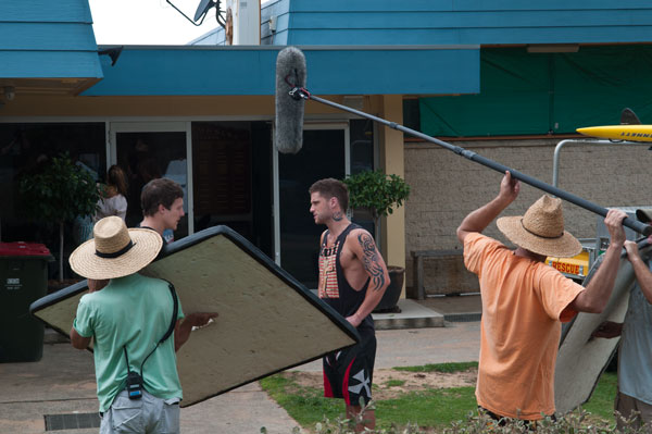 Filming taking place at Palm Beach, Sydney - for Australian soap opera Home and Away. On set with the serial's crew are Steve Peacocke and Dan Ewing. This photograph was taken by John Campbell who was present on set.